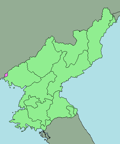 area map of Sinuiju Special Administrative Region